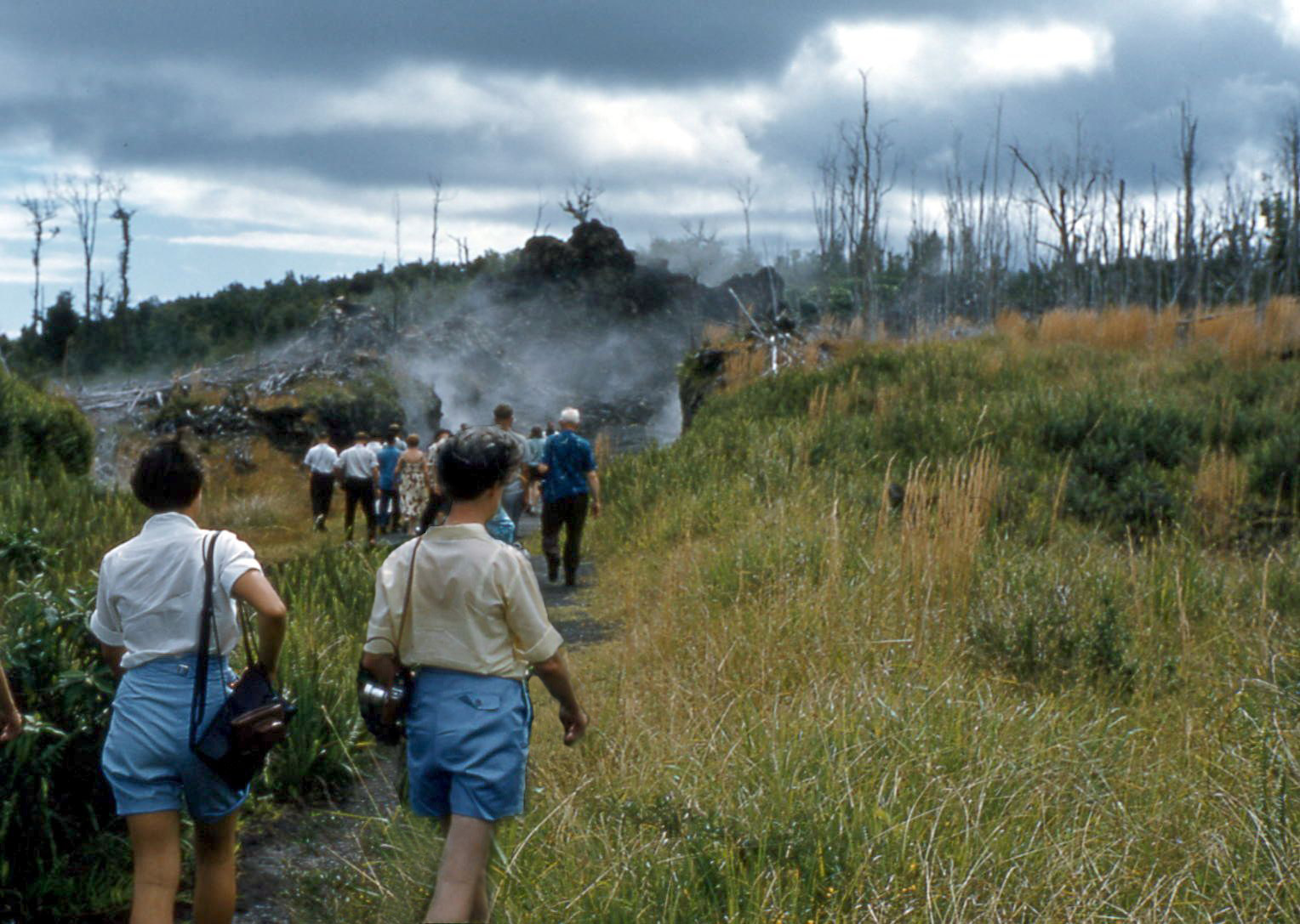 Tourists on way to watch eruption of Kilauea Iki volcano, Island of Hawaii, 1959